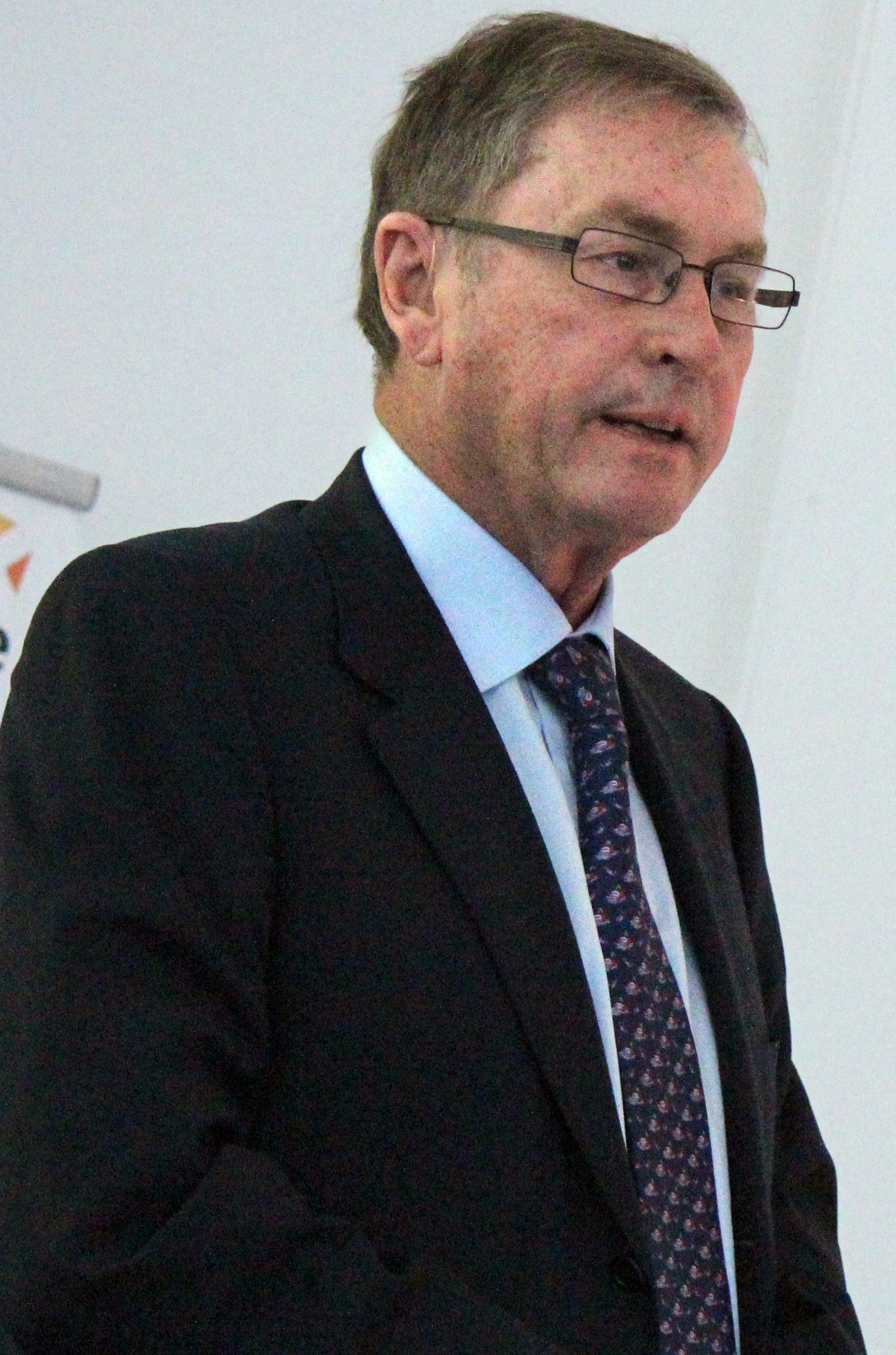 cropped pic of Lord Ashcroft, as original licence allows